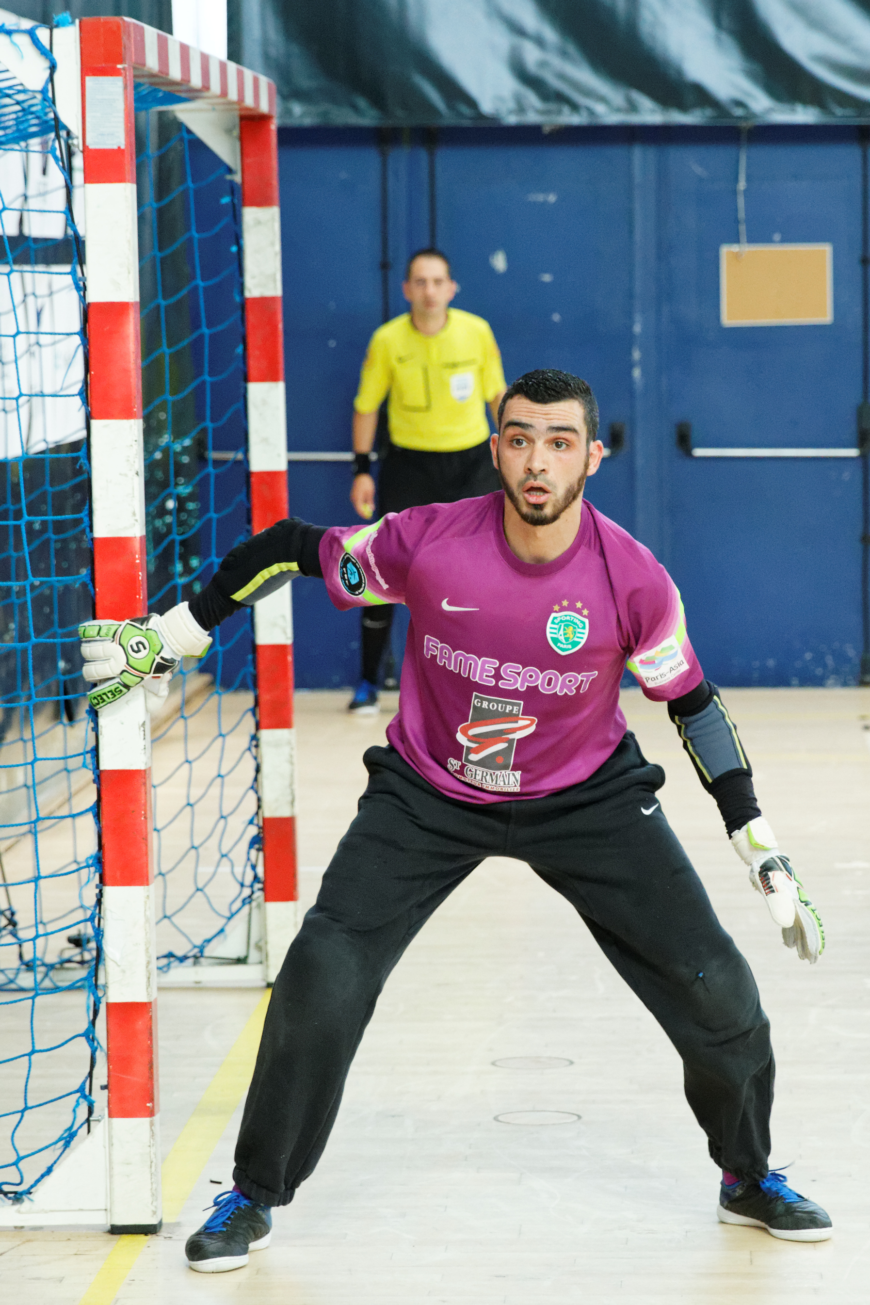 France futsal championship. Play-off. Sporting Club de Paris vs Kremlin-Bicêtre United.